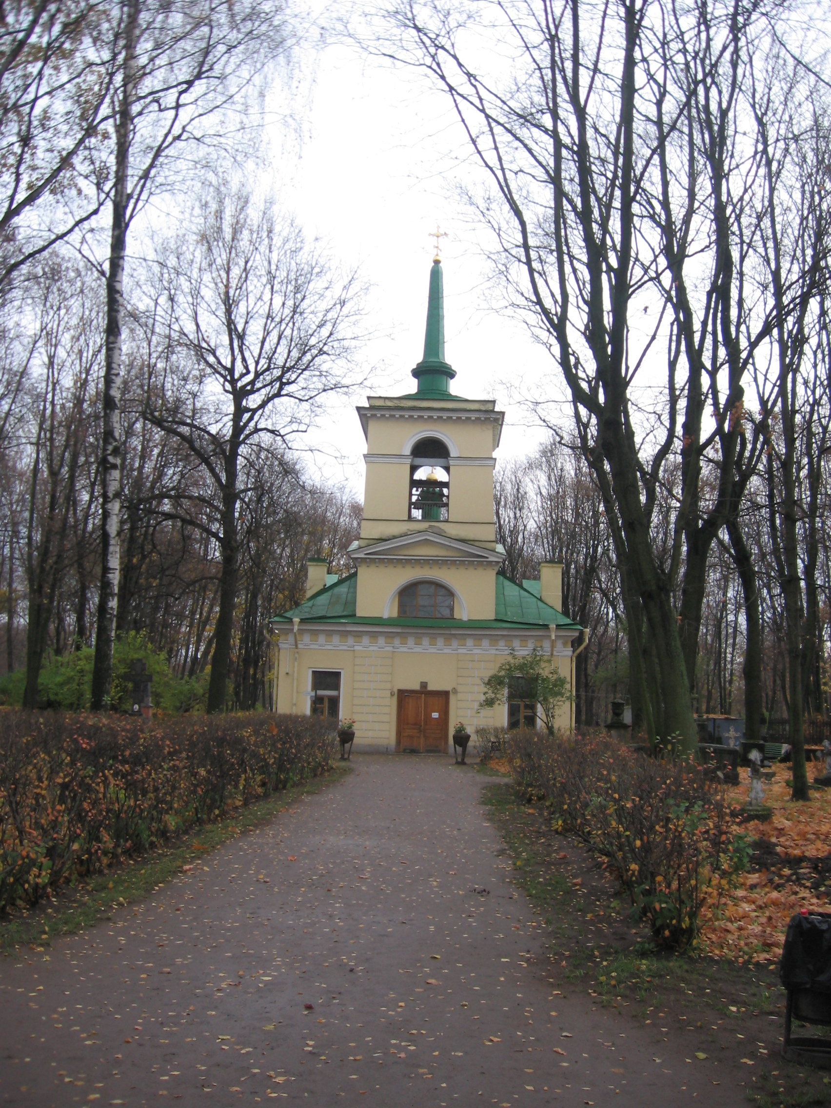 Church of the Resurrection of the Volkovo Cemetery